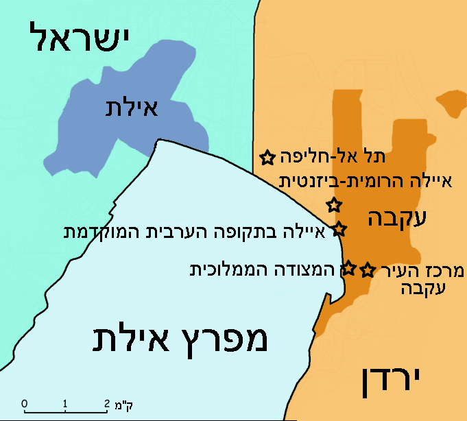 Northern part of the Gulf of Aqaba